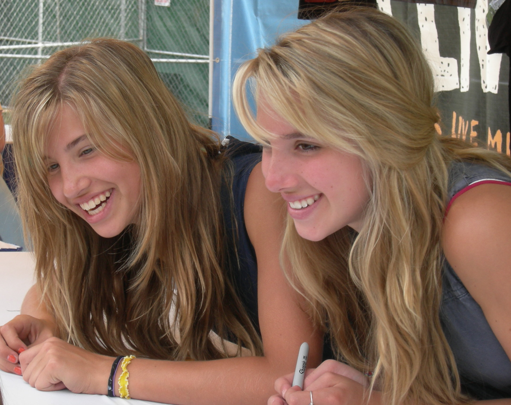 Smoosh at Bumbershoot, a music and arts festival held every Labor Day at Seattle Center, Seattle, Washington. Drummer / vocalist Chloe (left) and keyboardist / vocalist Asya sign autographs after their performance.